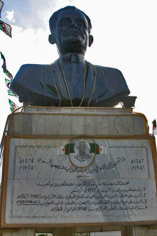 Le buste de Mostefa Ben Boulaïd à Arris.